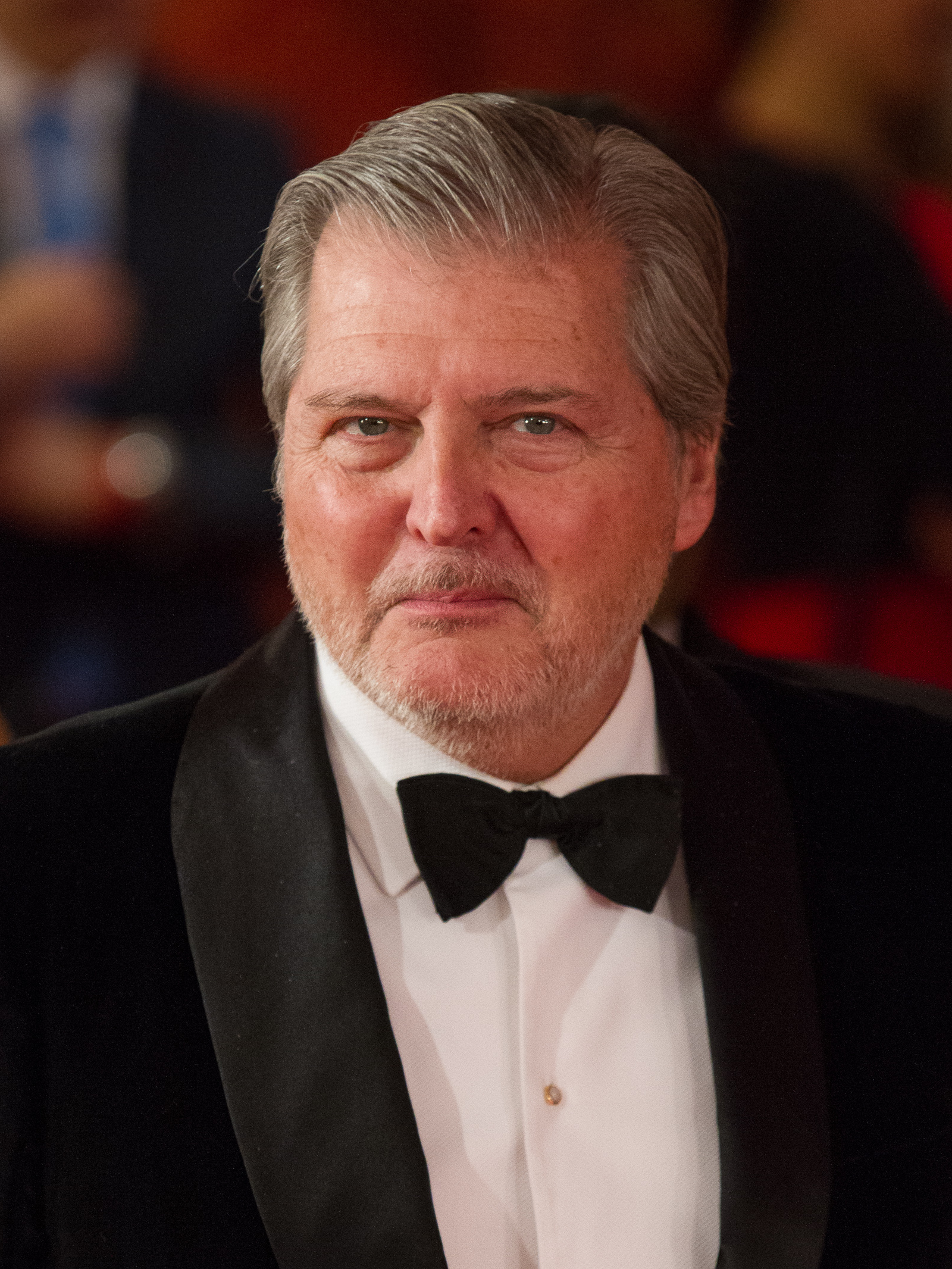 Íñigo Méndez de Vigo, Minister of Education, Culture and Sport of Spain, at the 32nd Goya Awards, 2018.